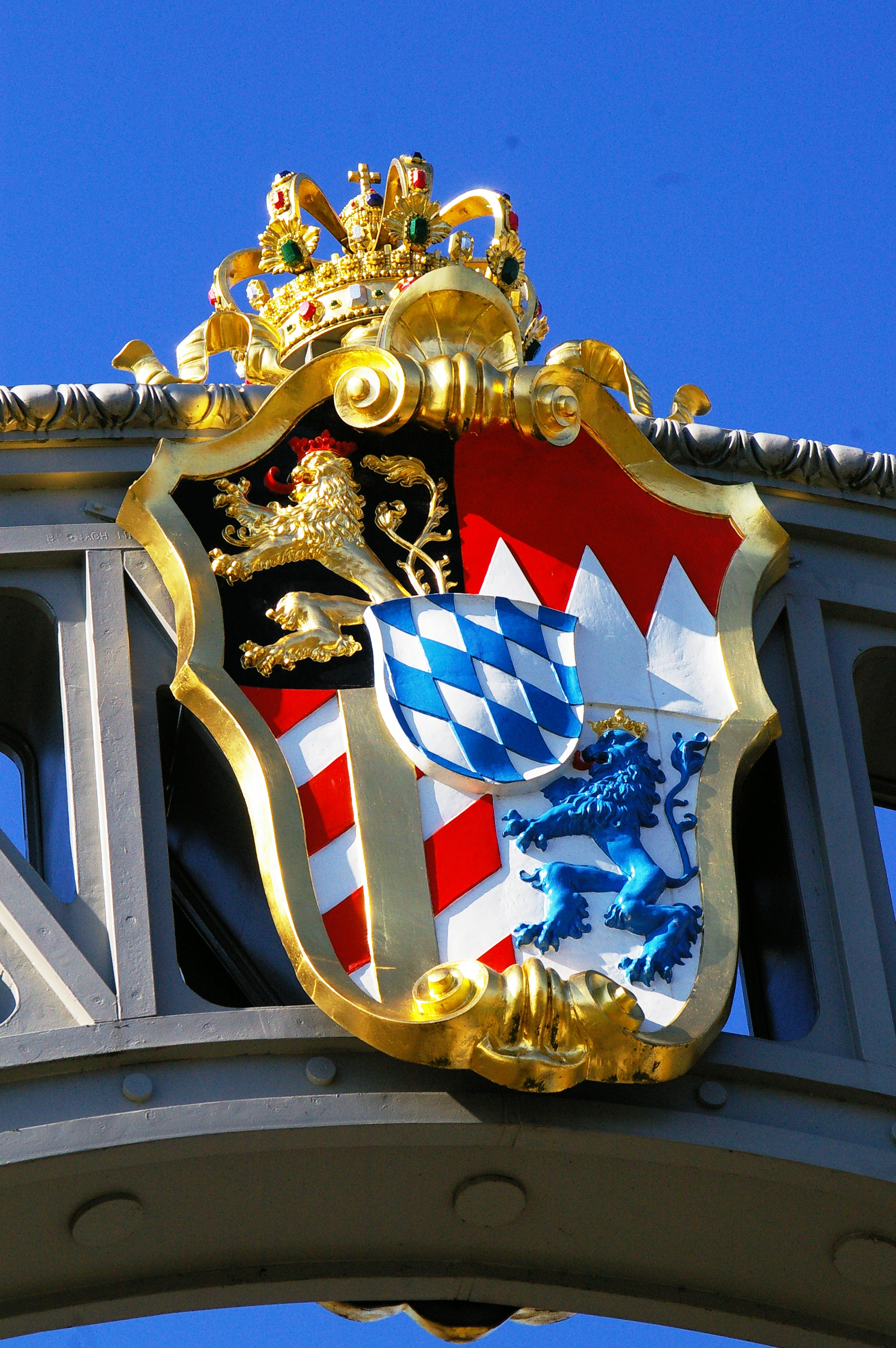 Coat of arm Bavaria Bridge Oberndorf Laufen